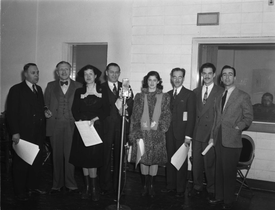 Comedians part of the distribution of radio drama "Un homme et son péché" (A man and his sin) by Claude-Henri Grignon broadcast by CBC studios in Montreal. We see Louis Philippe Mercure, Hector Charland, Estelle Maufette, Arthur Lefebvre Manon Lafrance, Lucien Thériault, René Lecavalier and Francois Bertrand.